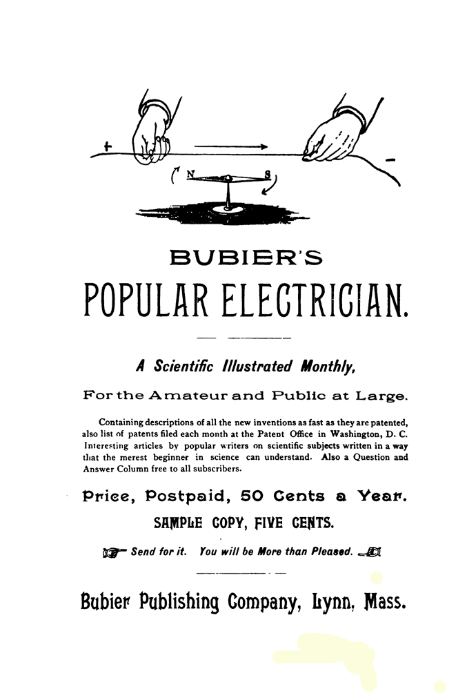 A 1893 advertisement for Bubier's Popular Electrician. Arithmetic of Magnetism and Electricity By John T. Morrow, Thorburn Reid Published by Bubier Publishing Co., 1893 Original from Harvard University Bubier's Popular Electrician was started 1890, the magazine was acquired by Sampson Publishing Company and the title was changed to Electrician and Mechanic in July 1906. The magazine was purchased by Modern Publishing and combined with Modern Electrics in January 1914 as Modern Electrics and Mechanics. After a series of mergers and title changes the magazine became Popular Science Monthly in October 1915 and is still published today.